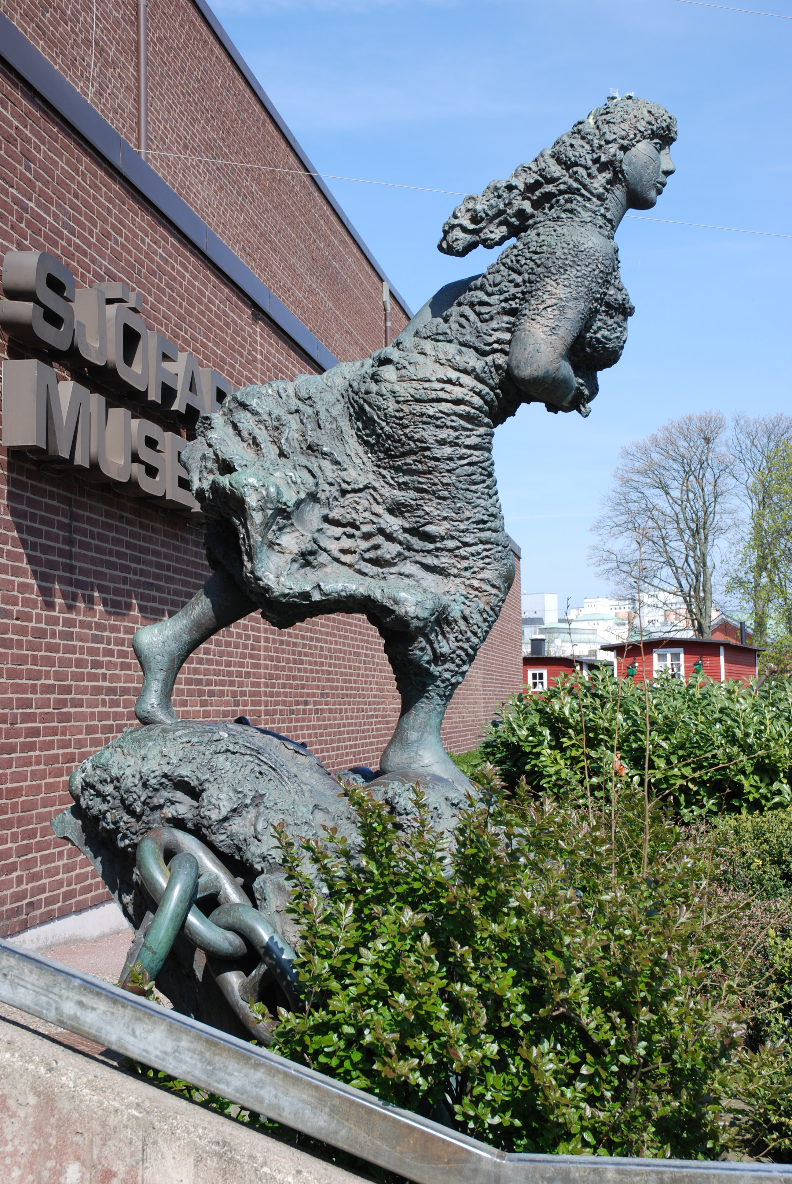 Gunnel Frieberg´s Vågen av Östersjön (Wave of the Baltic Sea), Malmö, Sweden